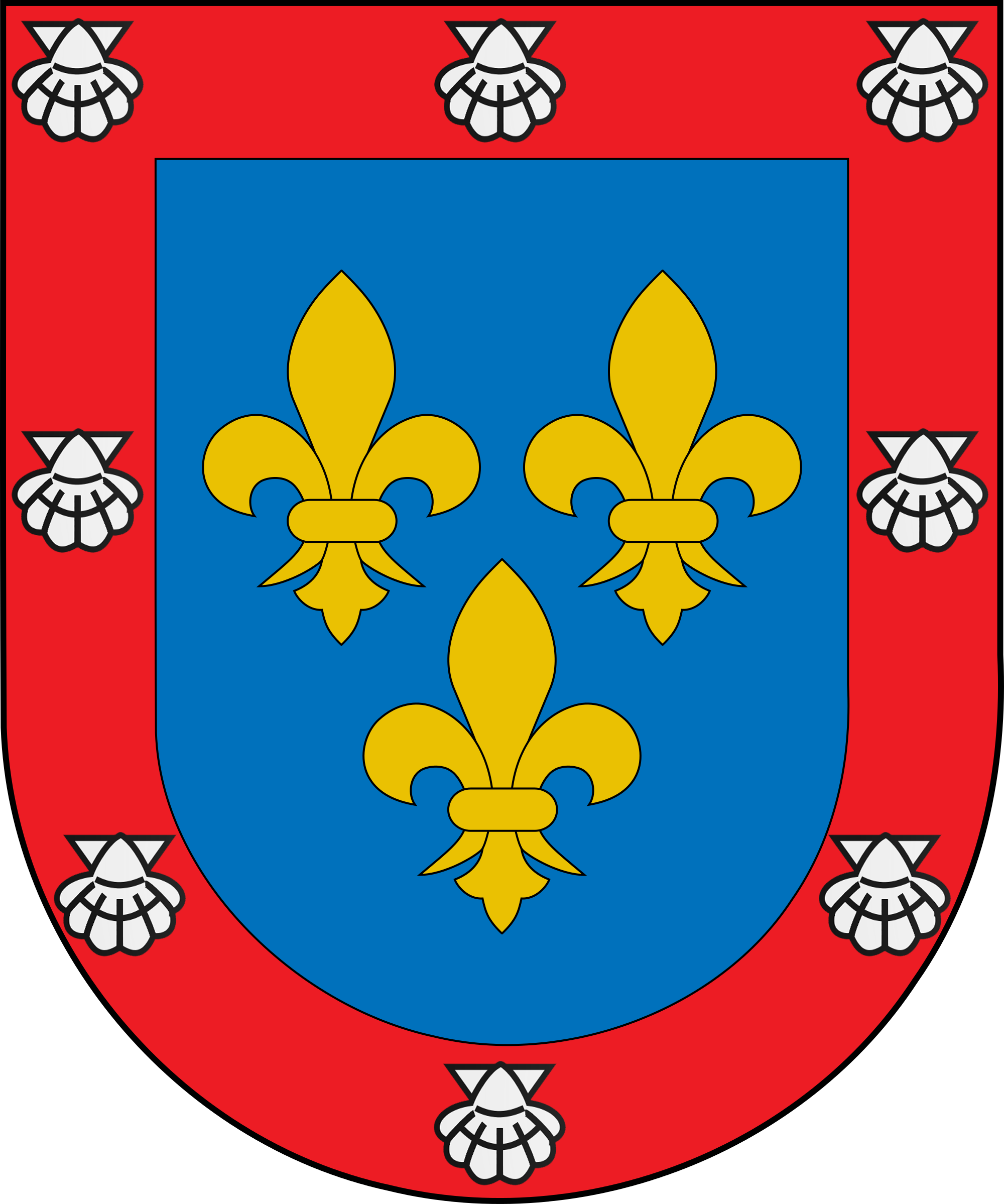 Arms of Bourbon-Parma